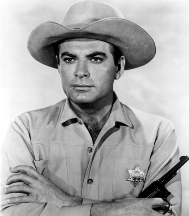 Photo of John Bromfield as Frank Morgan from the television program Sheriff of Cochise.